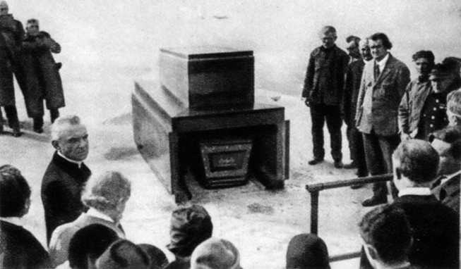 Remains of Émile Verhaeren were moved to Belgium.